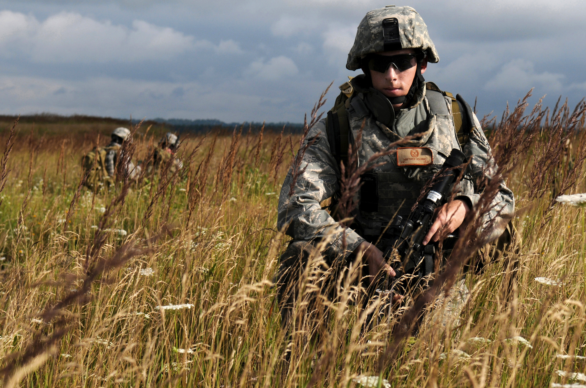 Airman 1st Class Matthew Aguirre, a Tactical Air Control Party Airman from the 1st Air Support Operations Squadron at Wiesbaden, Germany, secures a position for teammates August 3, 2009 during Allied Strike, a multi-national exercise taking place in Grafenwoehr, Germany.